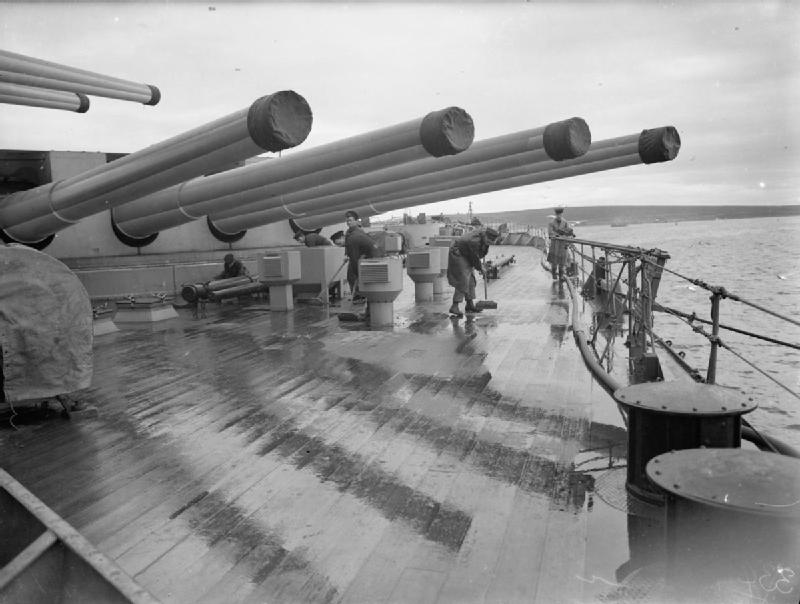 The Royal Navy during the Second World War The quadruple 14 inch gun turret dwarfs the ratings scrubbing down the decks on the forward part of HMS ANSON after she had arrived at Fleet Anchorage.